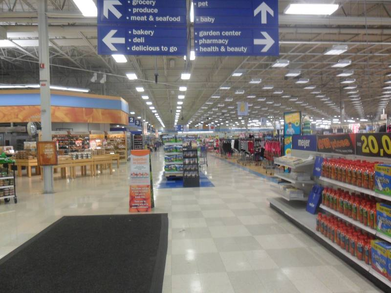 The interior of the Meijer in Southgate. Taken by me on August 11, 2014.